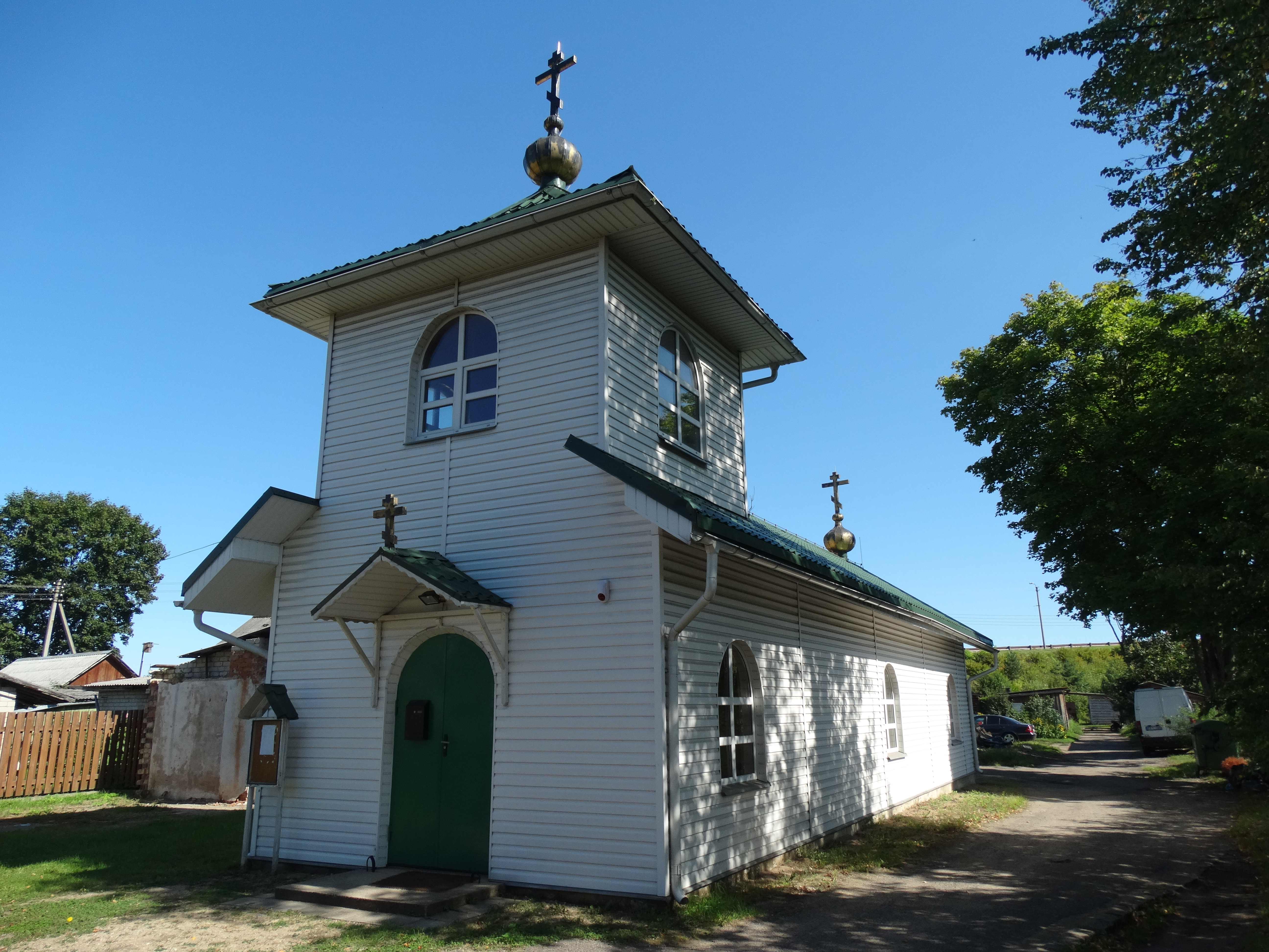 Church of Old Believers in Pabradė, Švenčionys District, Lithuania